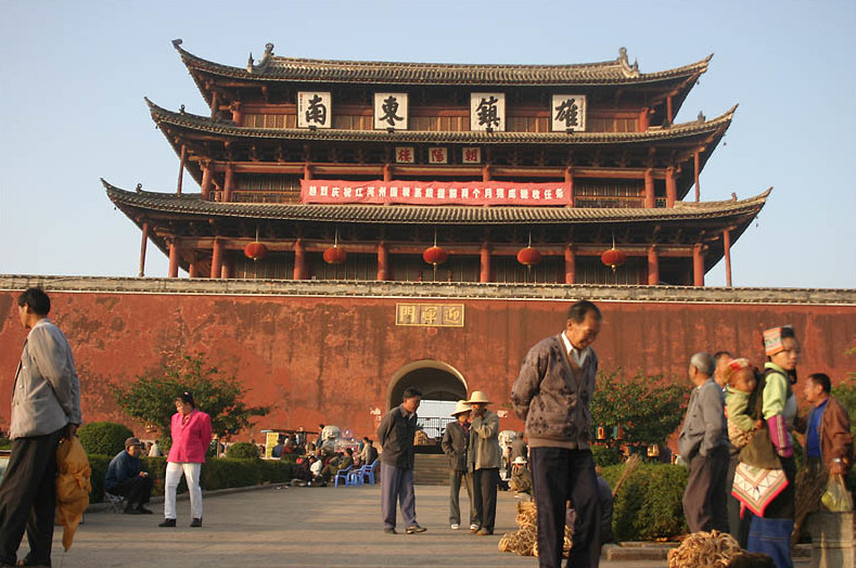 Chao Yang Lou (or Old City Gate) in Jianshui, Yunnan. Took it myself (prat), 2004-11-07.